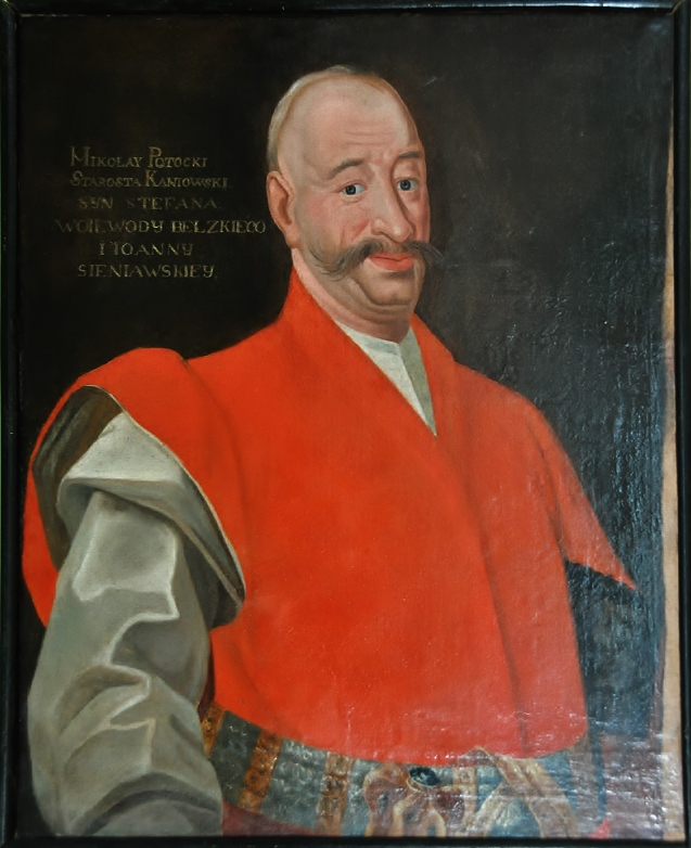 Portrait of Kaniv starost Mikolay Potocki of the end of 18th century, painted, probably, by Jakub Kalinovich. Oil, canvas. Lviv Art Gallery.